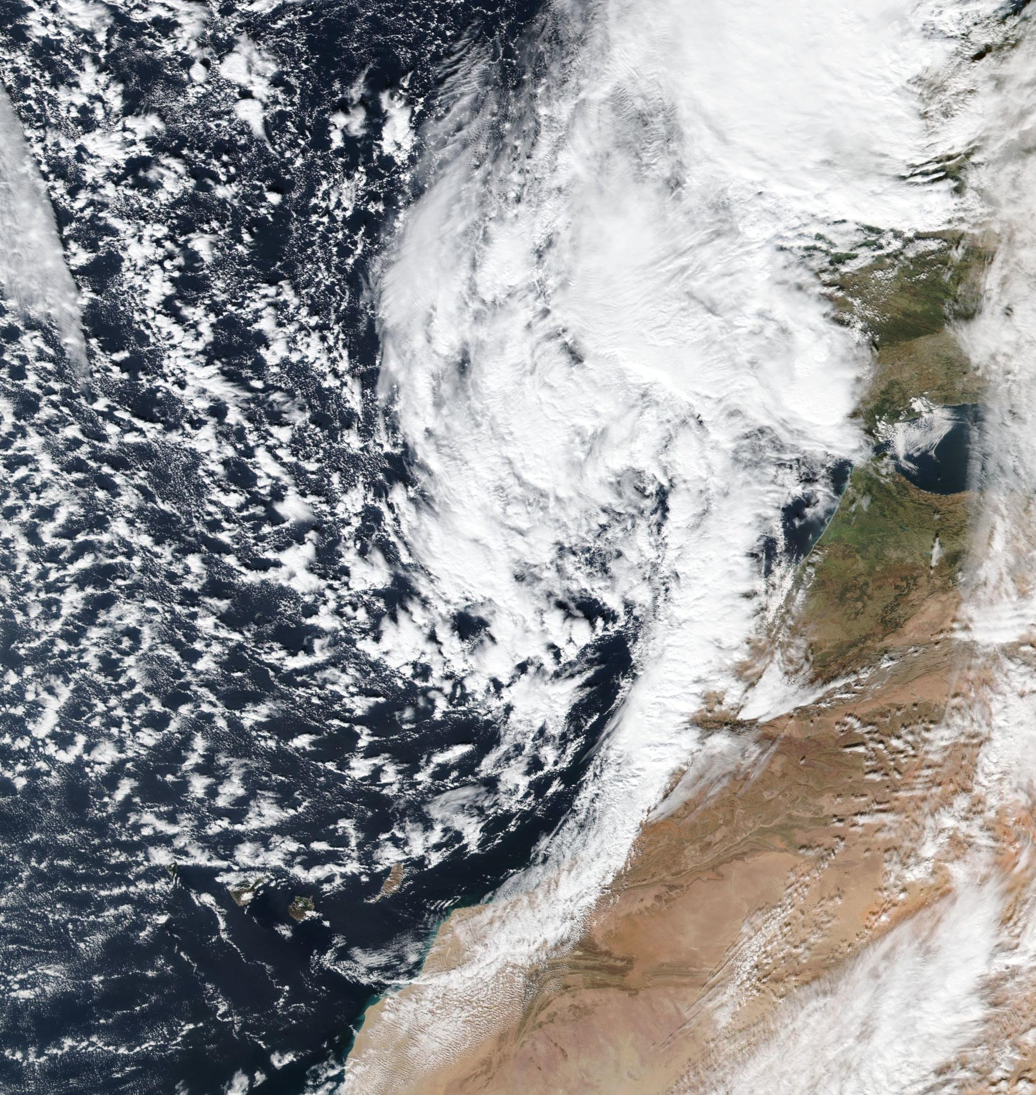 Storm Daniel, part of the 2019-20 European windstorm season, nearing the Iberian Peninsula on 16 December 2019.